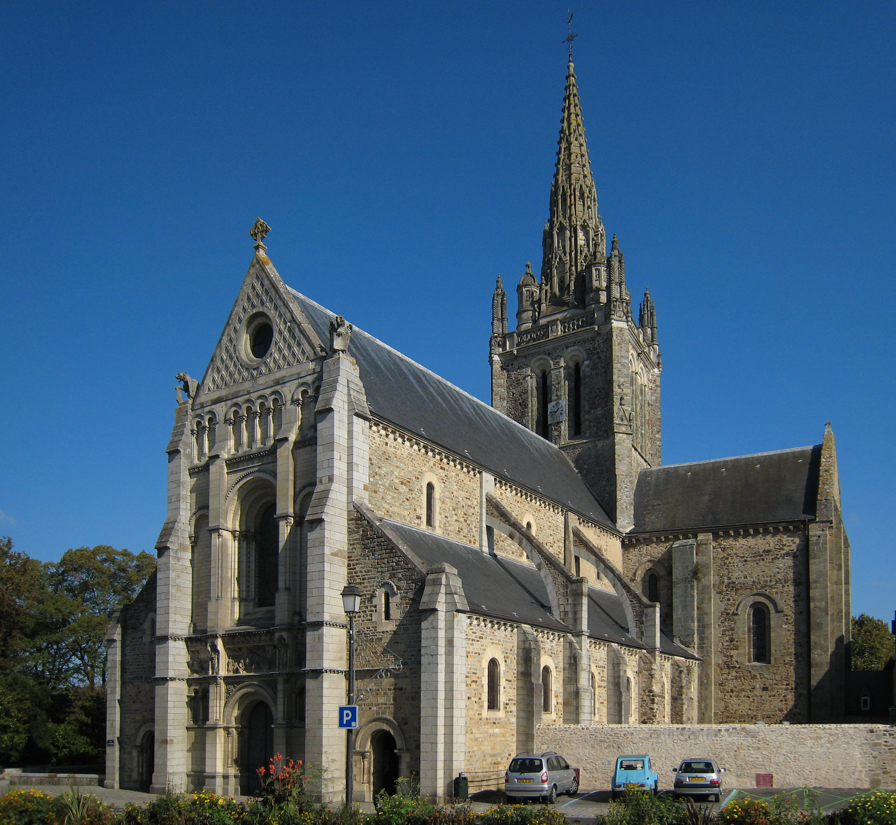 Village of Laval, located on the river Mayenne in the county of Mayenne/France; Basilica